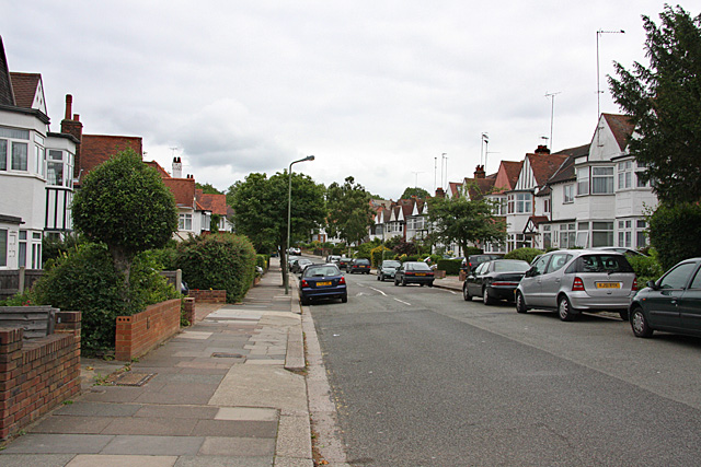 Lyndhurst Gardens A wide suburban street with semi-detached housing.